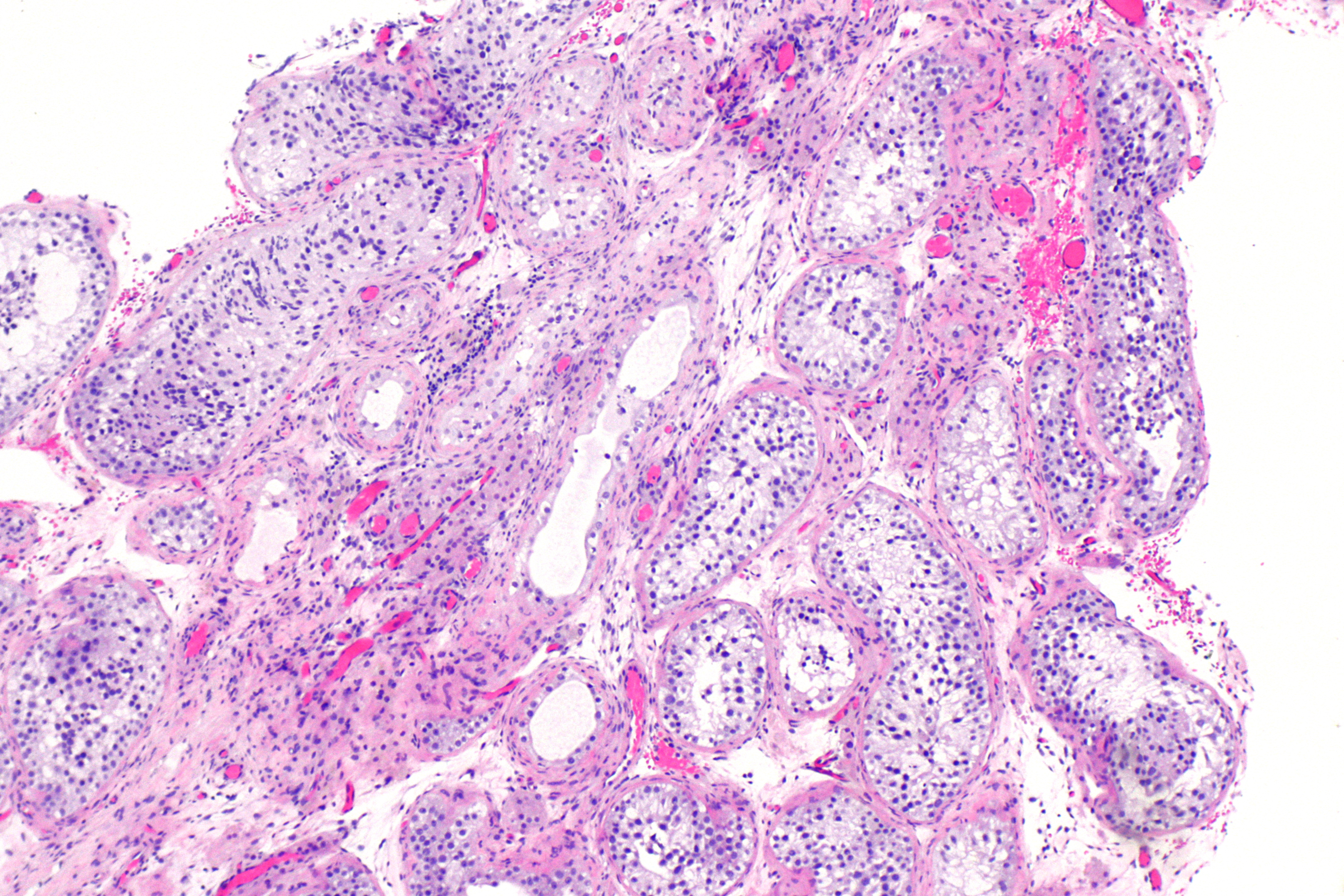 Micrograph showing changes a testicular biopsy for infertility with hypospermatogenesis and Sertoli cells only. H&E stain. Related images MI - low mag. MI - intermed. mag. MI - intermed. mag. MI - high mag. MI - high mag.